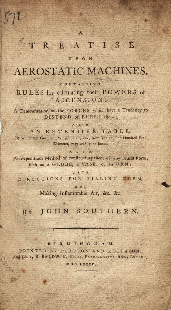 Title page from A treatise upon aerostatic machines: containing rules for calculating their powers of ascension, 1785, by John Southern. Cropped and slightly edited for color and brightness/contrast. Full scan of book: EC75.So883.785t, Houghton Library, Harvard University